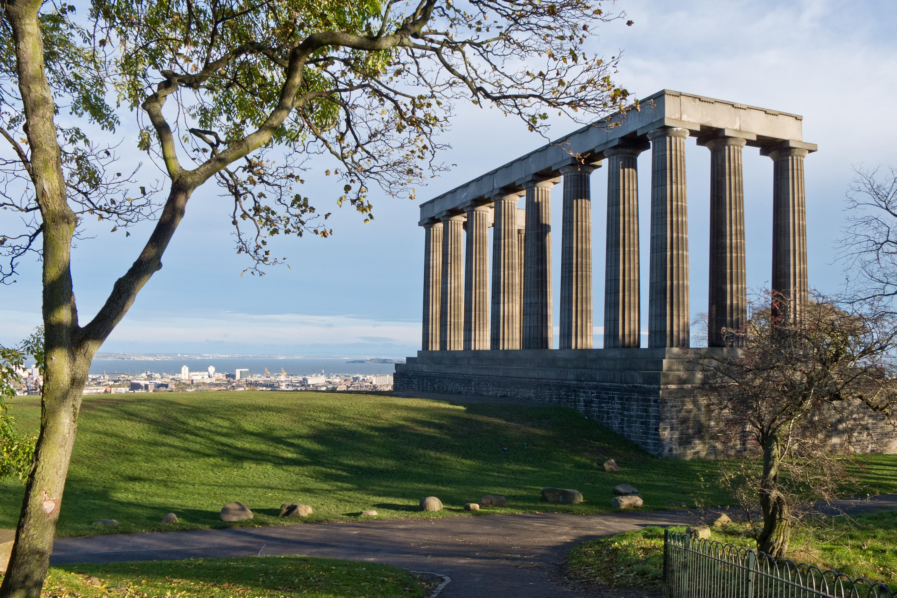 National Monument, Calton Hill, Edinburgh, Scotland, UK. Wikidata has entry Q6974379 with data related to this building.